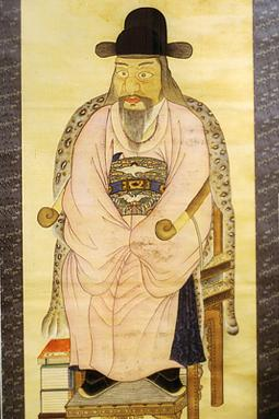 General Yun Kwan,Goryeo's General